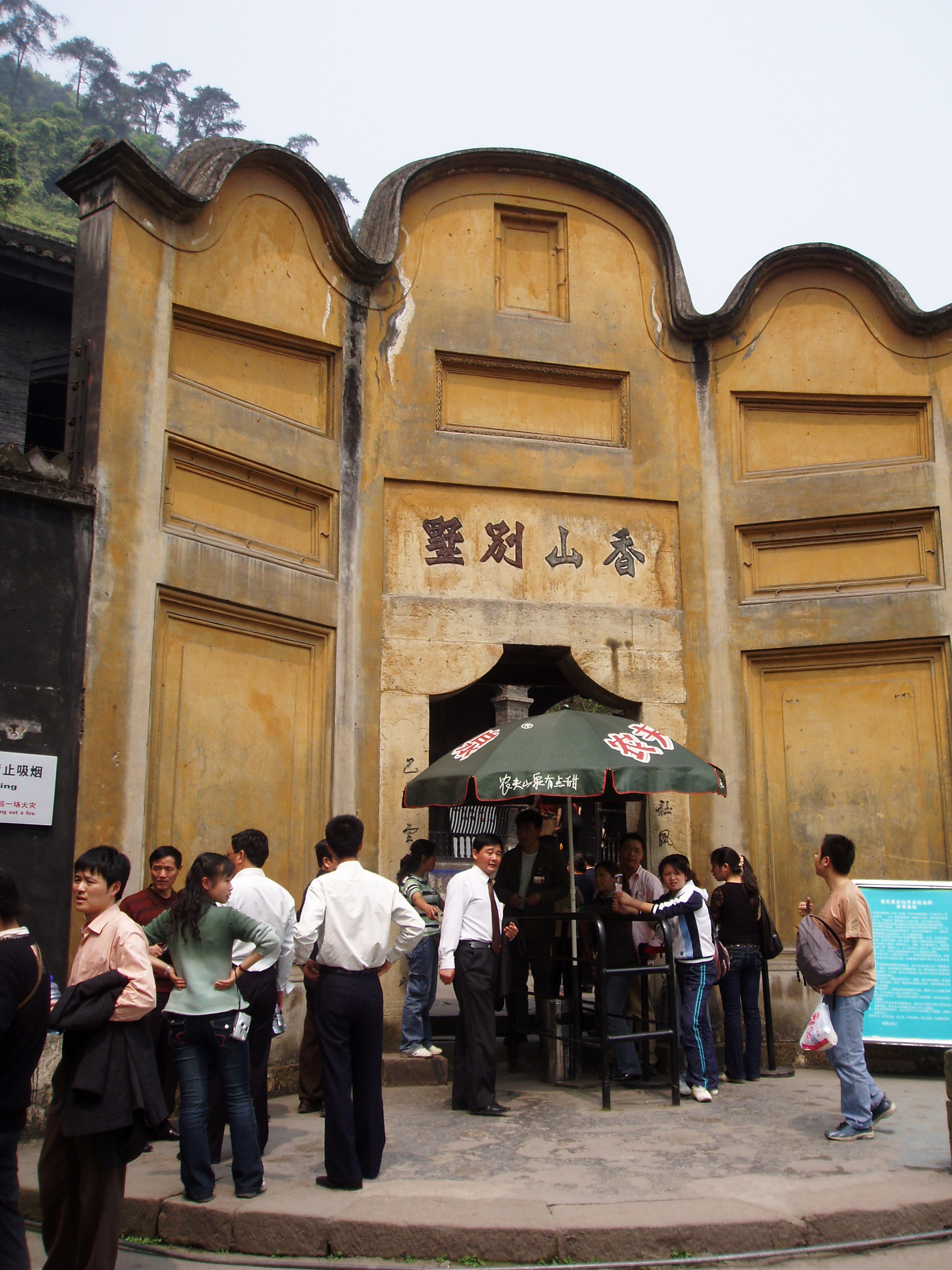 Baigongguan (白公馆), an ex-concentration camp for political prisoners in Chongqing, China, now is a museum.